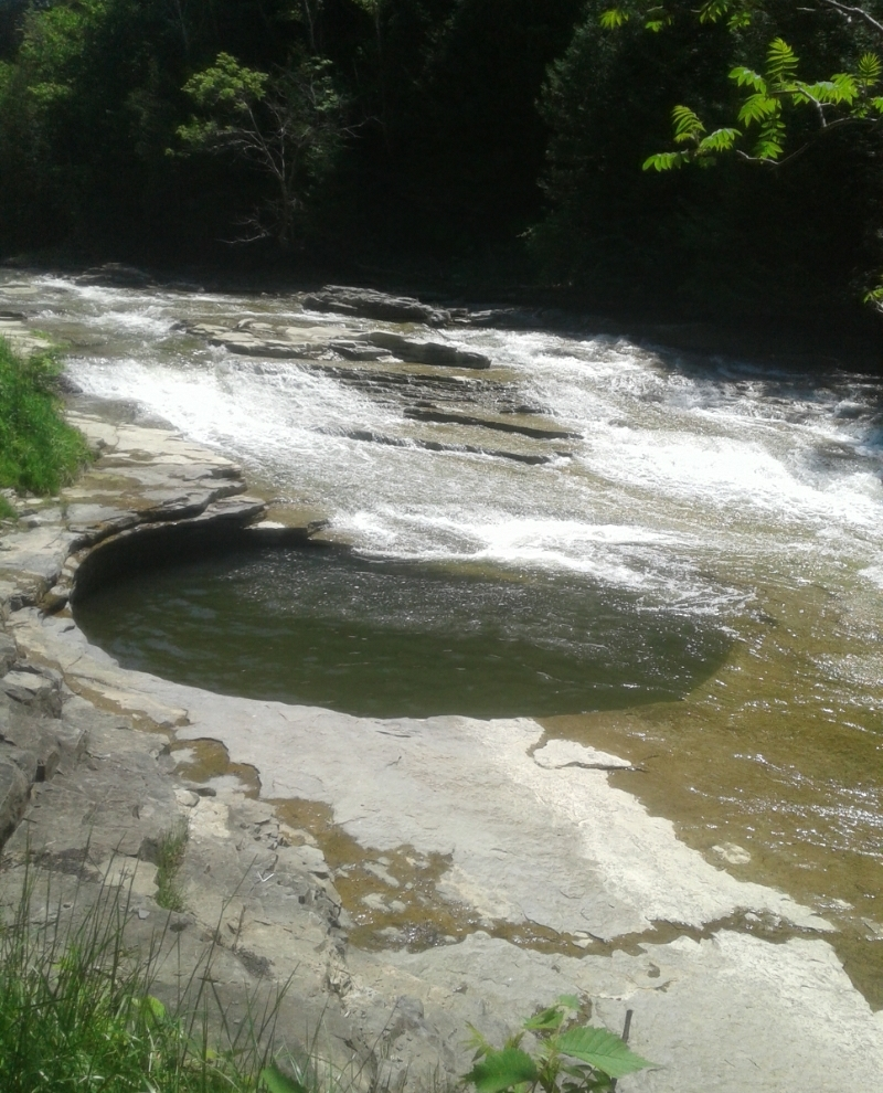 "The pot that washes itself" on the Canajoharie Creek in Canajoharie. Taken on May 27, 2019.